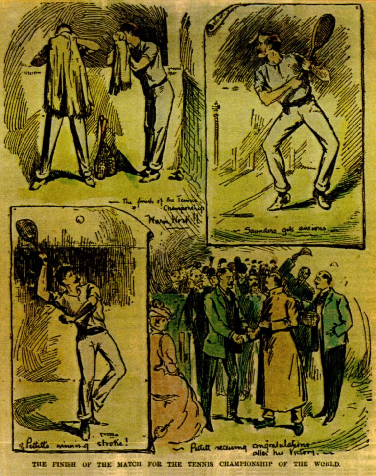 Real tennis world championship, 1890, played at the Dublin court built by Edward Guinness, 1st Earl of Iveagh in 1885 at his Earlsfort Terrace house. 53°20′09″N 6°15′30″W / 53.33583°N 6.25833°WCaption: "The finish of the match for the tennis championship of the world."